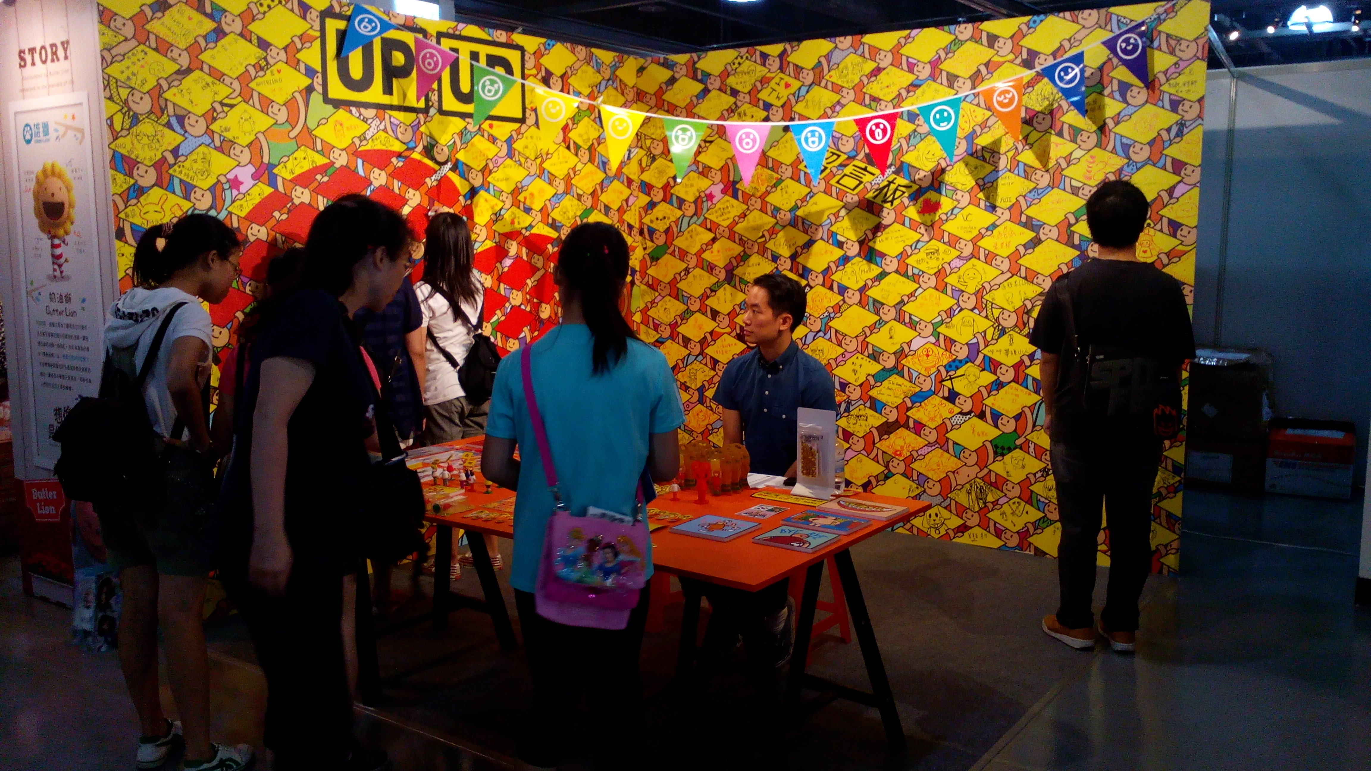 2014 Taoyuan International ACGT Fair - UP UP booth.